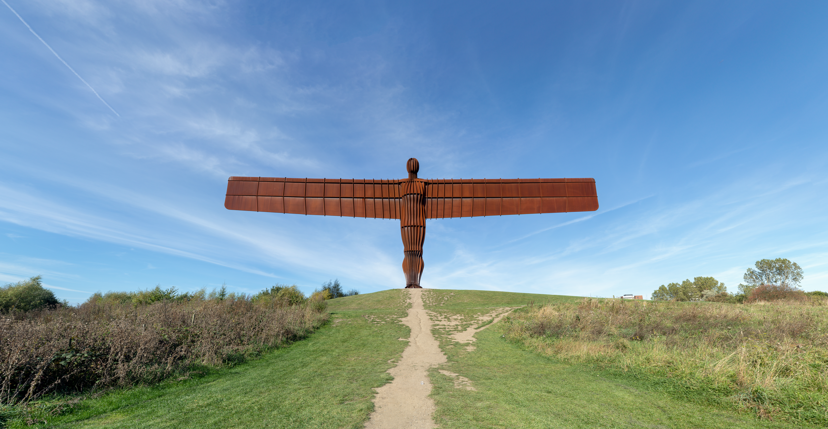 The Angel of the North, from the bottom of the hill looking up at the Angel